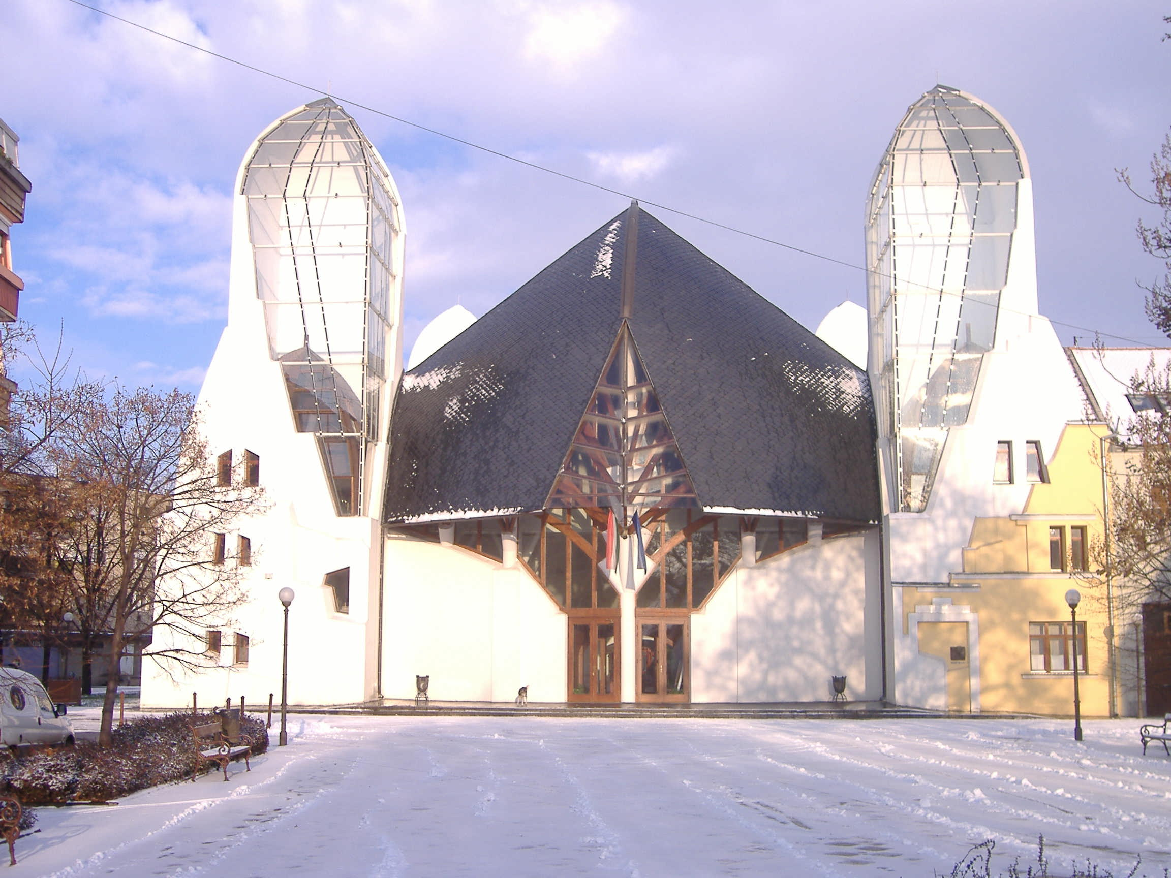 The Hagymaház, theatre of Makó at winter.